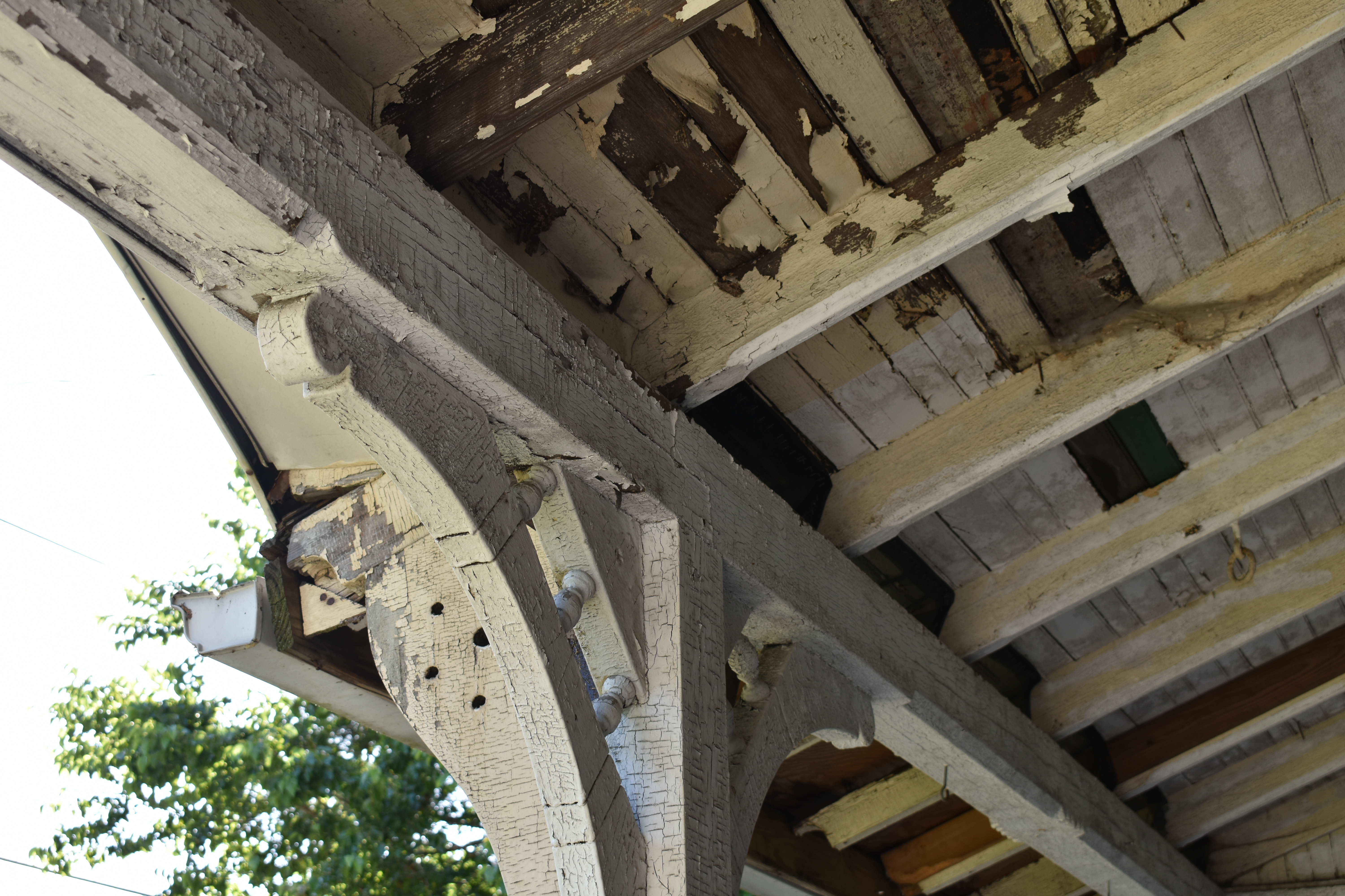 Lead paint applied to a porch, cracking and flaking off. Lead paint is a major source of environmental lead contamination.